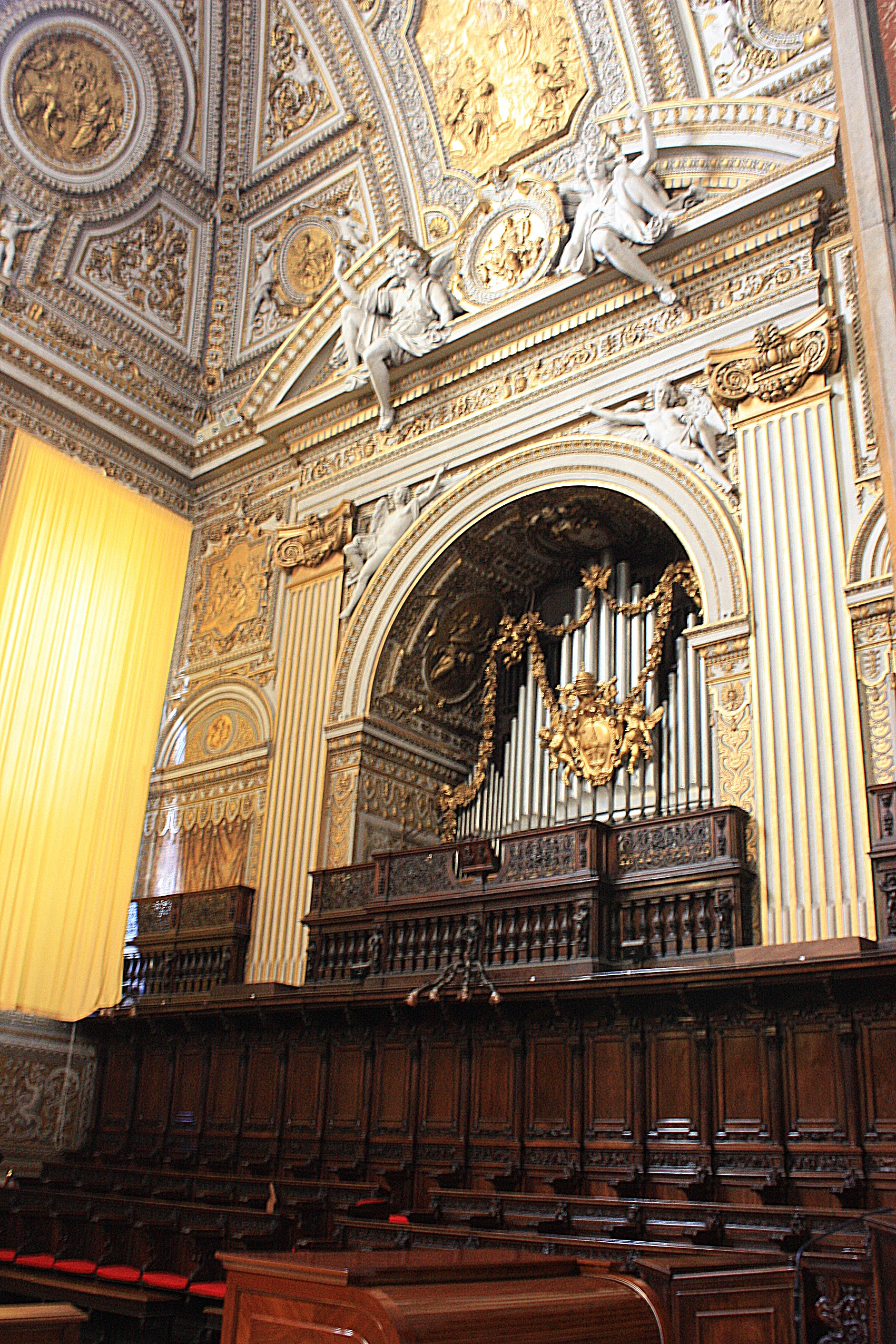 Vatican, Saint Peter's Basilica, organ